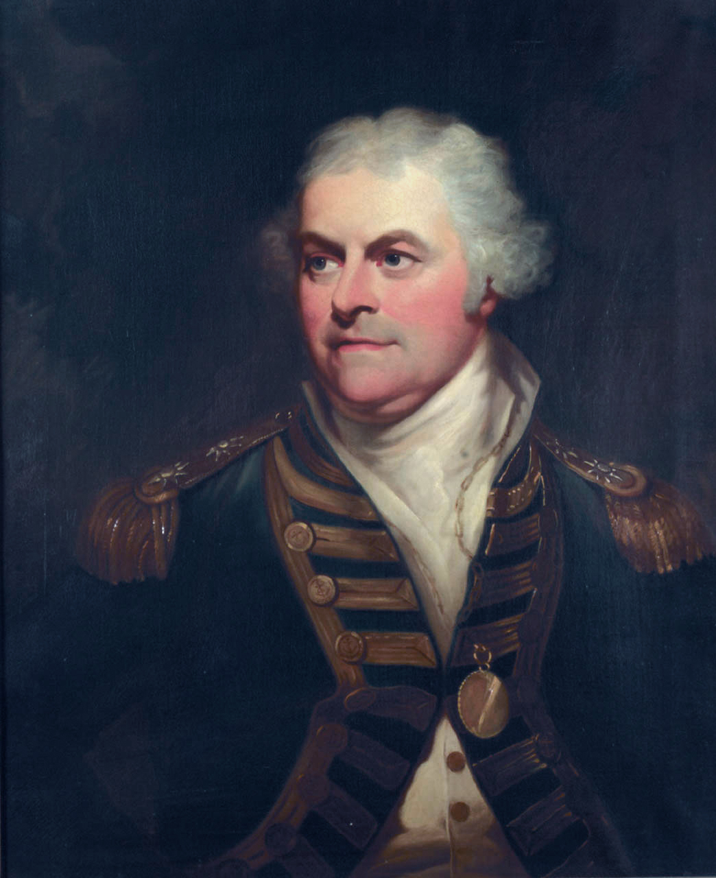 Vice-Admiral Lord Alan Gardner (1742-1809) oil on canvas 76 x 73.5 cm 1780-1809